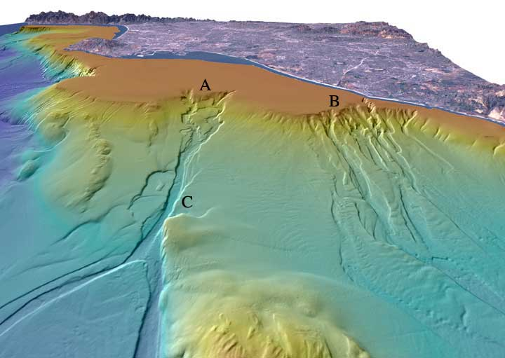 "Perspective view looking north over the San Gabriel (A) and Newport (B) submarine canyons. The distance across the bottom of the image is about 17 km with a vertical exaggeration of 6x. Both canyons formed when the San Gabriel River and the Santa Ana River flowed out across the Los Angeles Basin and offshore shelf when it was exposed during lower eustatic sea level. Newport Canyon begins less than 360 m from shore at the north end of Newport Harbor and is composed of individual channels that braid down the slope over a width of about 9 km. San Gabriel Canyon begins as a series of channels that join together midway down the slope and then split into two channels at the base of the slope. The width of San Gabriel Canyon at "C" is 815 m and incises about 25 m into the slope. Lasuen Knoll can be seen in the forground."